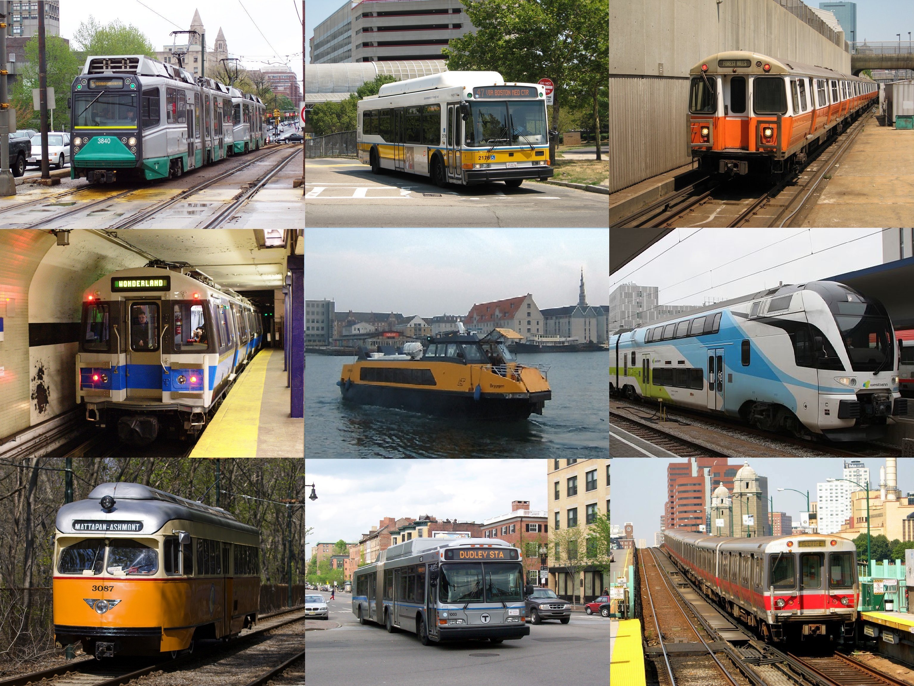 Original photos taken by Adam E. Moreira, Herbert Ortner and Quistnix